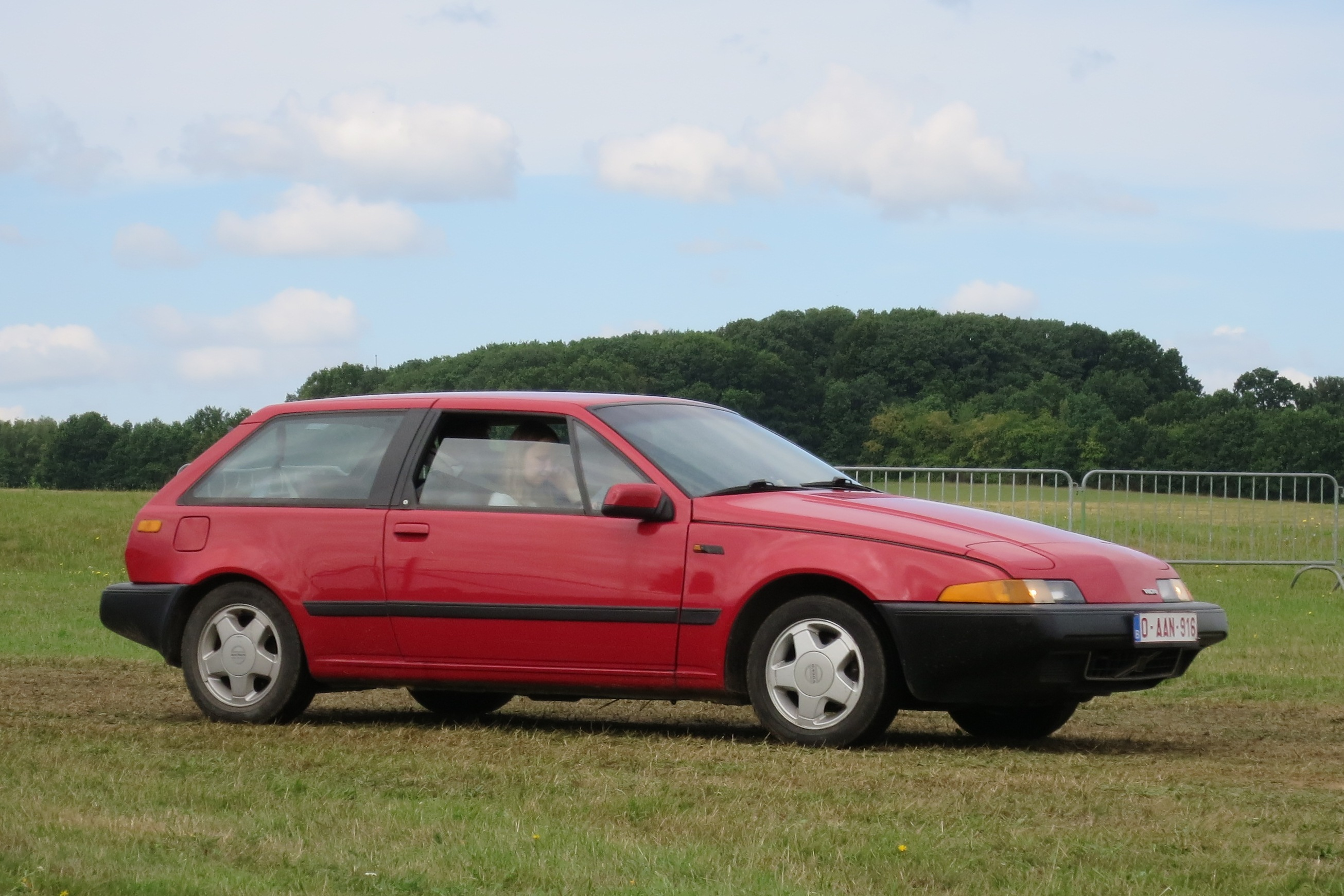 Volvo 480ES arriving Schaffen-Diest